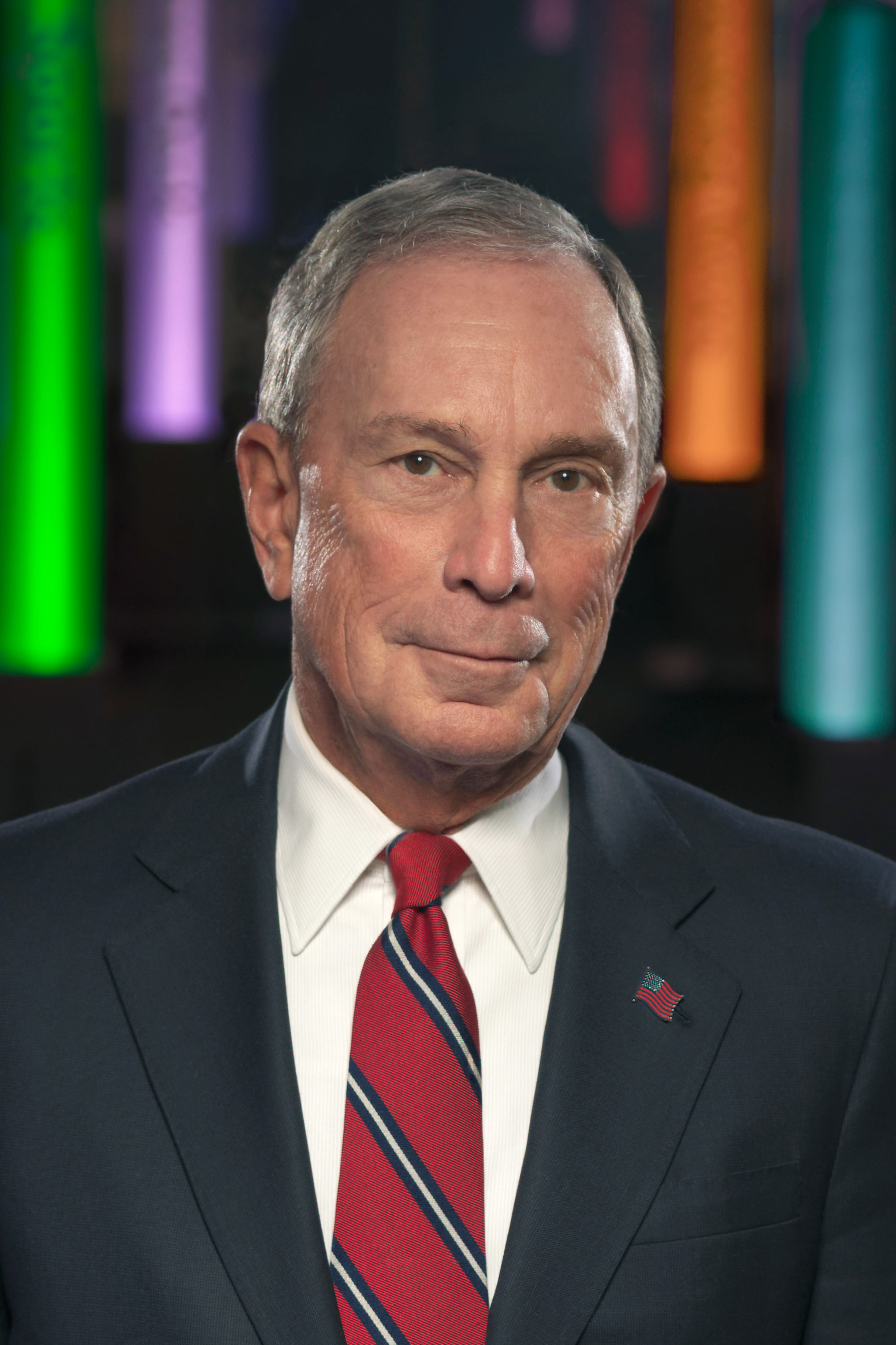 Mike Bloomberg Headshot